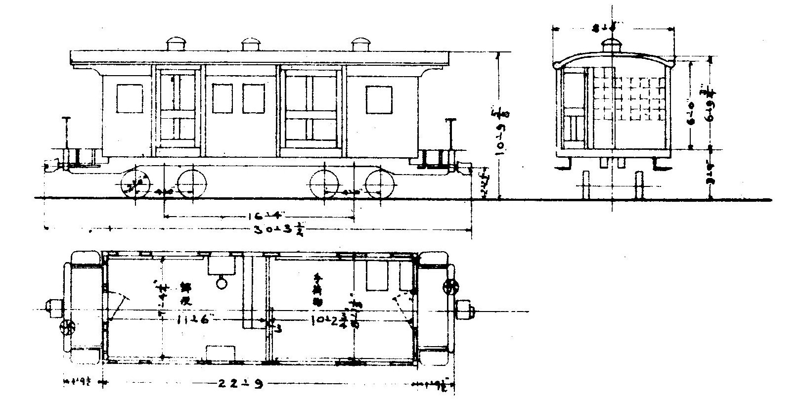 Type drawing of JGR's passenger car Koyuni8720 (ex. Hokkaido Tanko Railway Yuri-2)